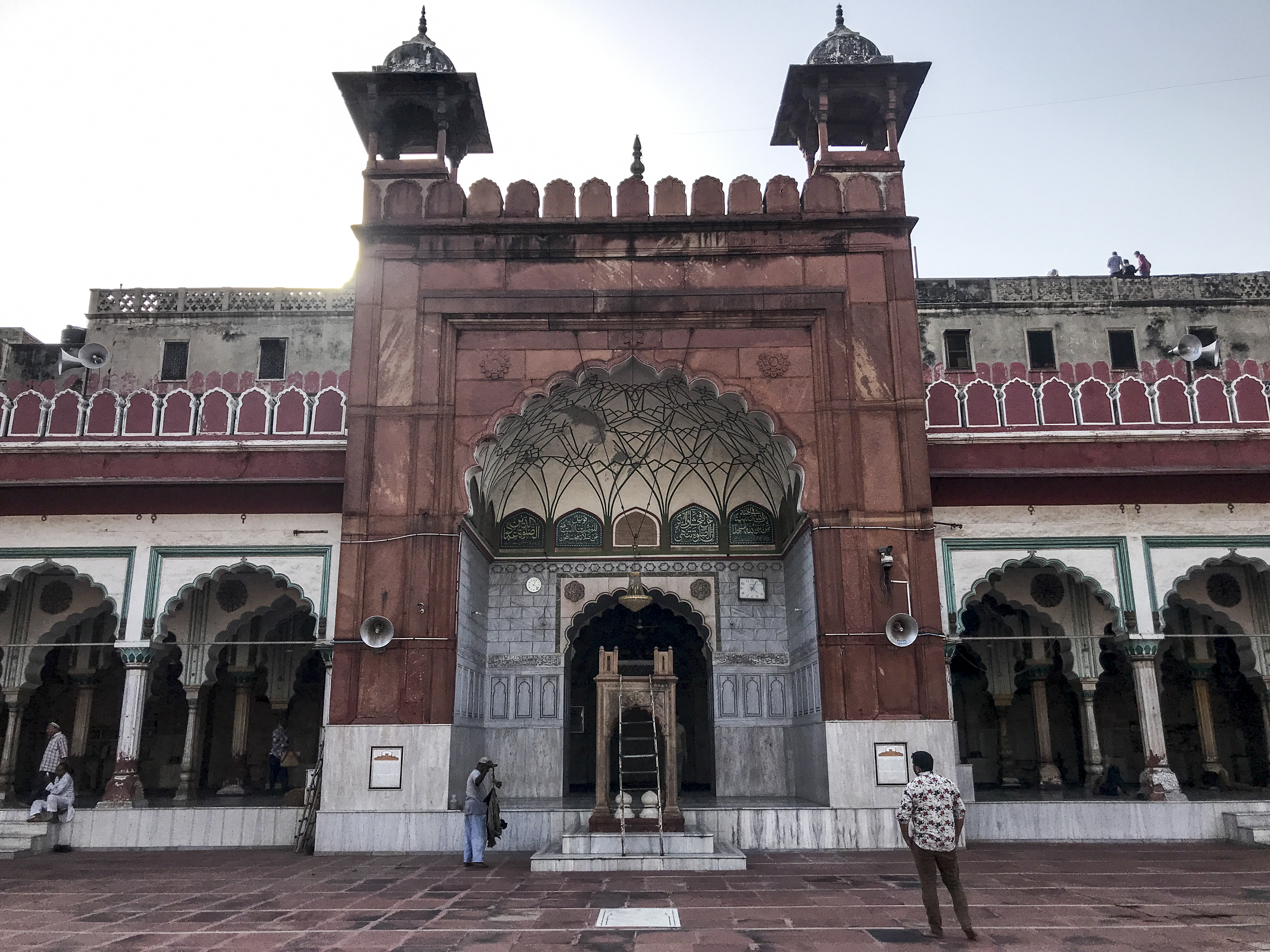 Fatehpuri Masjid situated in Chandni Chowk area in Delhi, India. It was built in 1650 by Fatehpuri Begum, one of the wives of Emperor Shah Jahan.